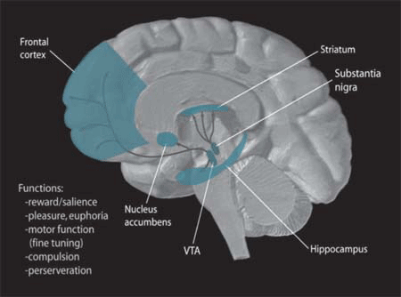 Dopamine Pathways. In the brain, dopamine plays an important role in the regulation of reward and movement. As part of the reward pathway, dopamine is manufactured in nerve cell bodies located within the ventral tegmental area (VTA) and is released in the nucleus accumbens and the prefrontal cortex. Its motor functions are linked to a separate pathway, with cell bodies in the substantia nigra that manufacture and release dopamine into the striatum.